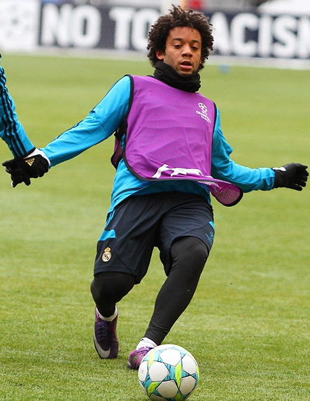 Marcelo Vieira